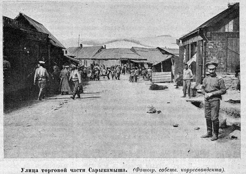 Sarıkamış (market, 1916) / Sarikamis